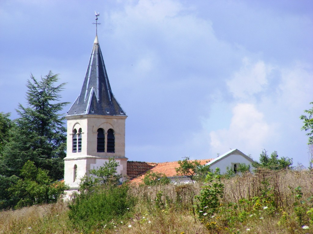 église de lisle